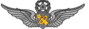 Army Astronaut